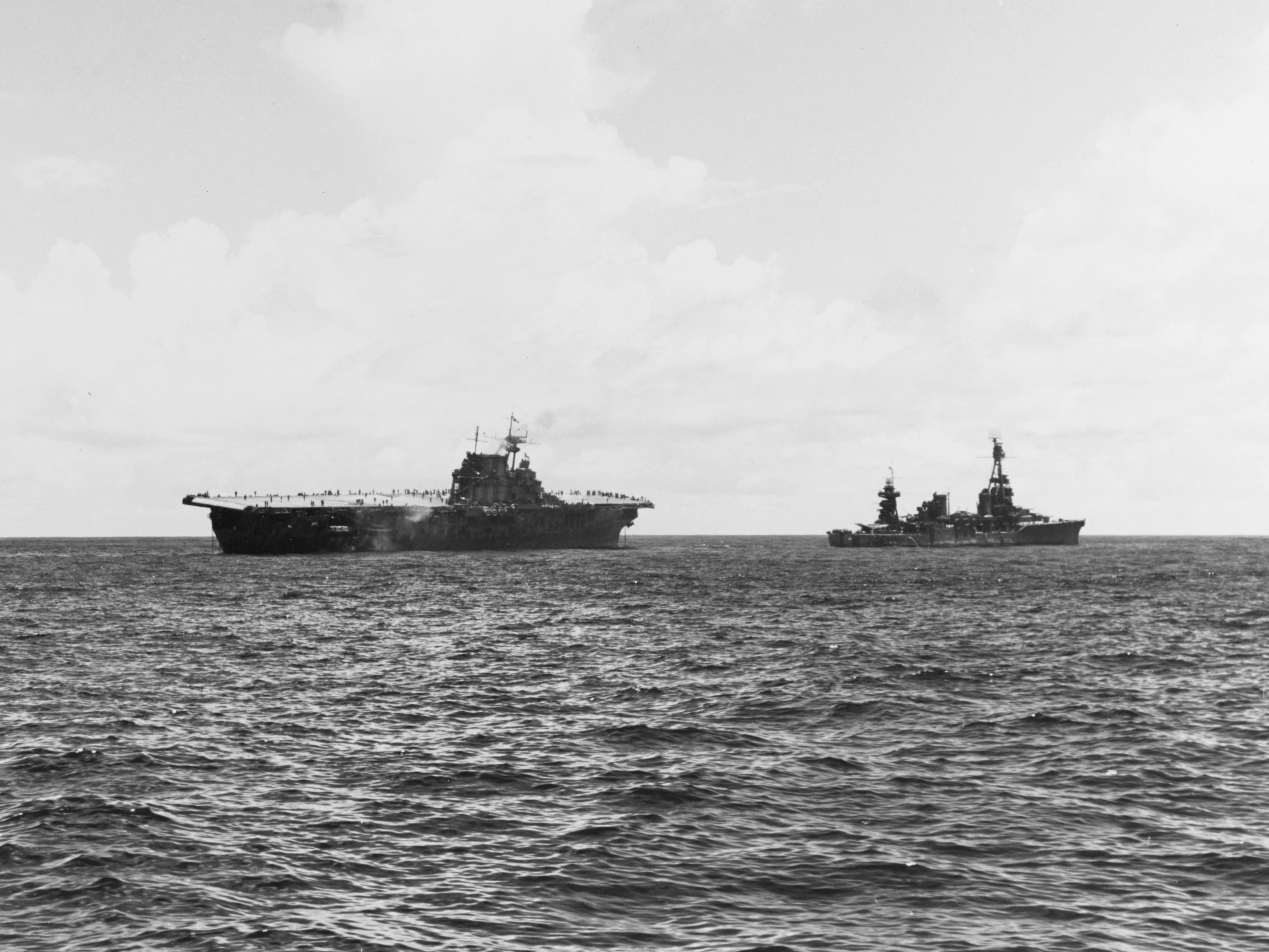 The U.S. heavy cruiser USS Northampton (CA-26) attempting to tow the aircraft carrier USS Hornet (CV-8) after the latter had been damaged by Japanese air attacks on 26 October 1942 during the Battle of the Santa Cruz Islands.